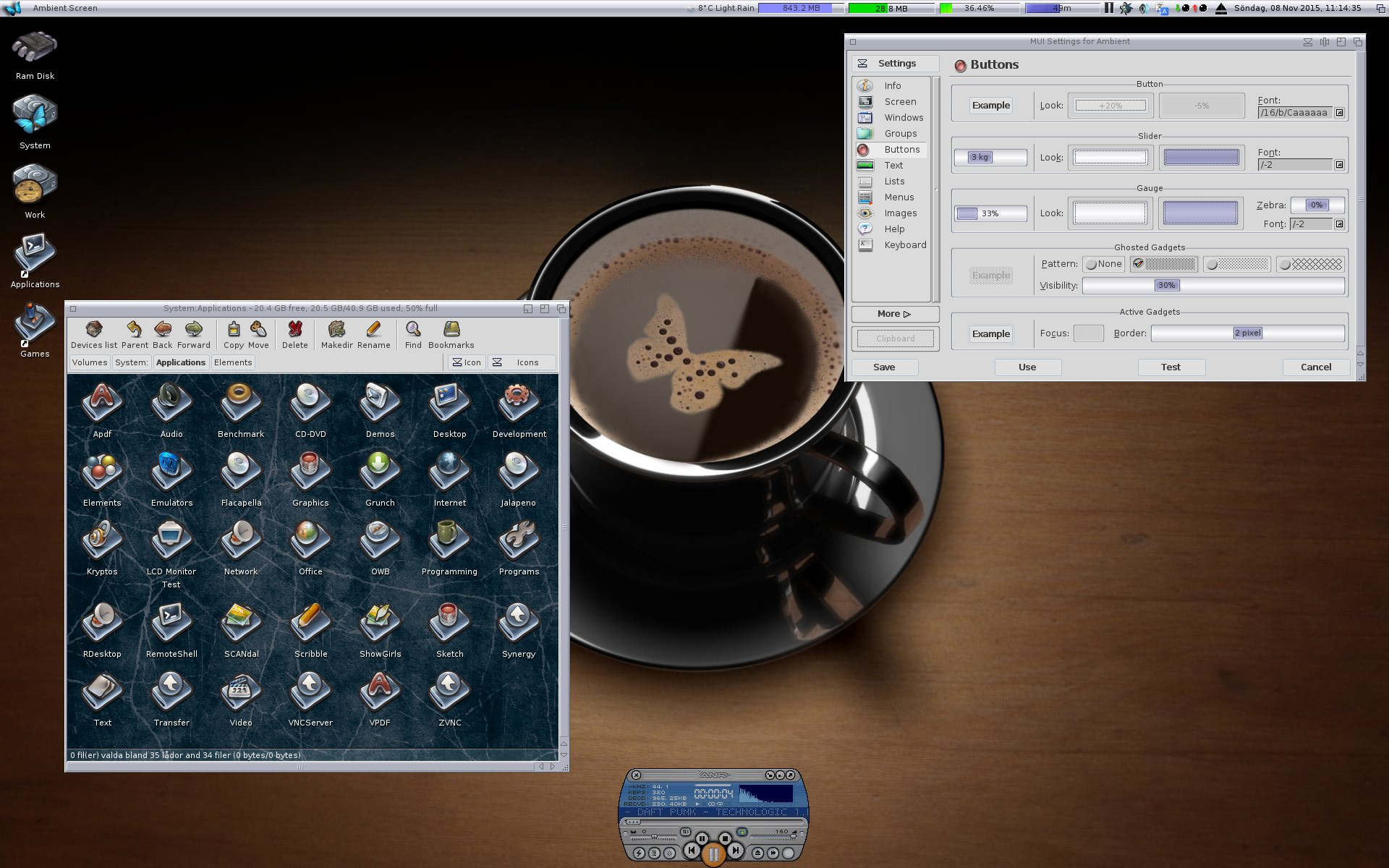 MorphOS with the standard desktop Ambinet. This has been modified with a new theme, new icons and changes in MUI. This picture shows the Application drawer (including third party software), MUI settings and the music player Aminet Radio.